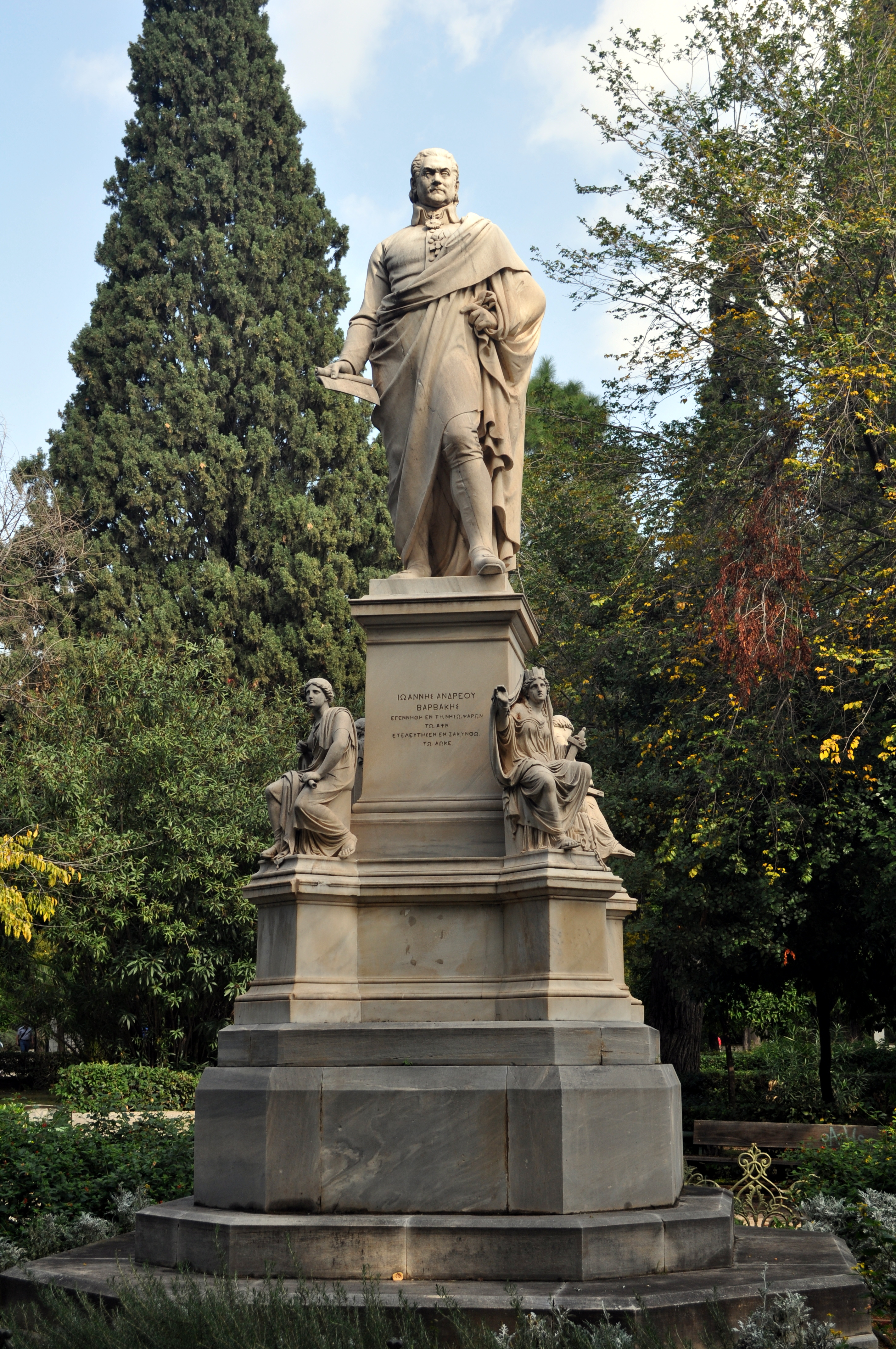 Monument in National Gardens in Athens